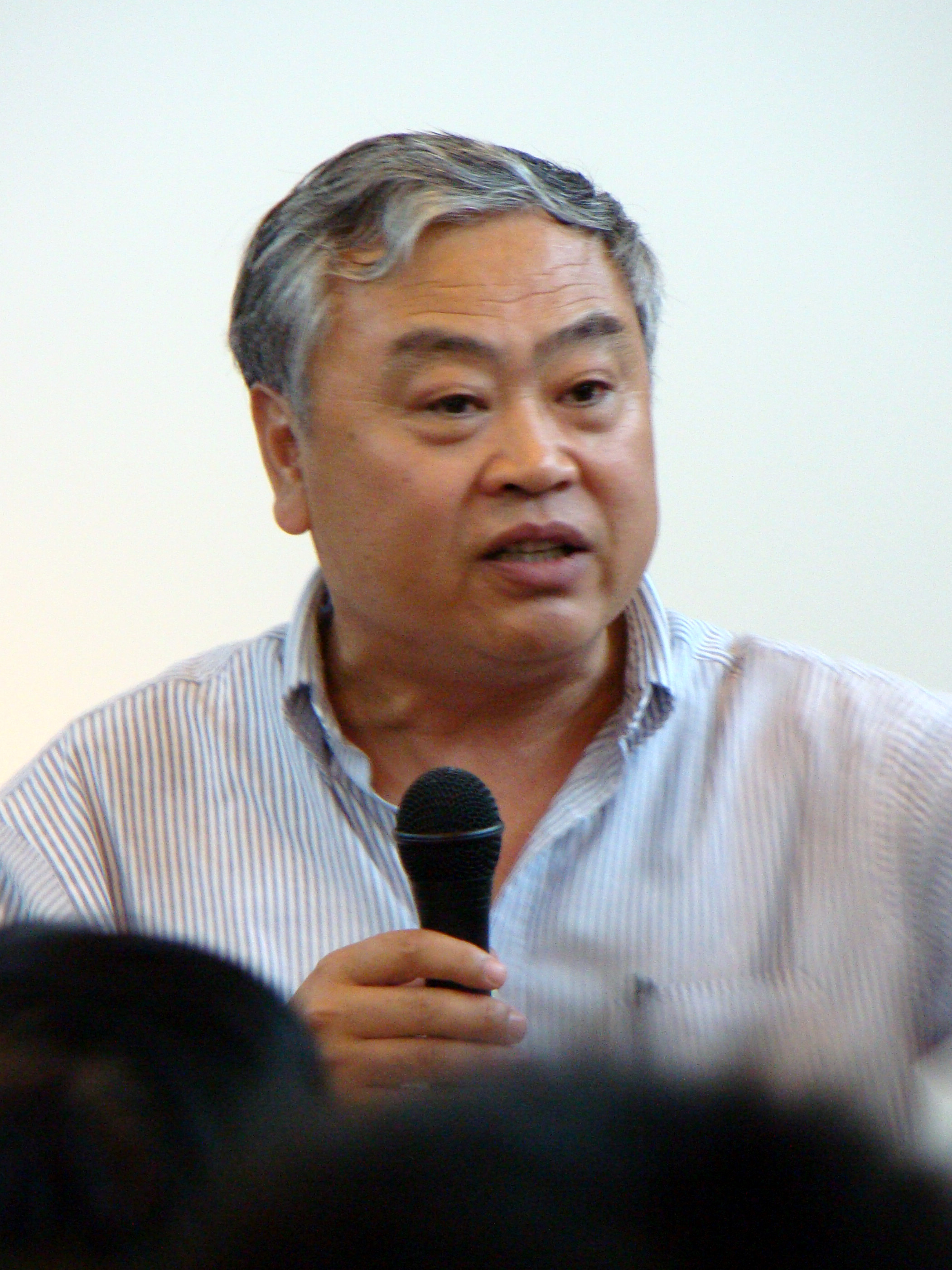 Professor Shen Zhihua，2009 中文（中国大陆）: 沈志华教授，2009年5月北京三味书屋讲学时。